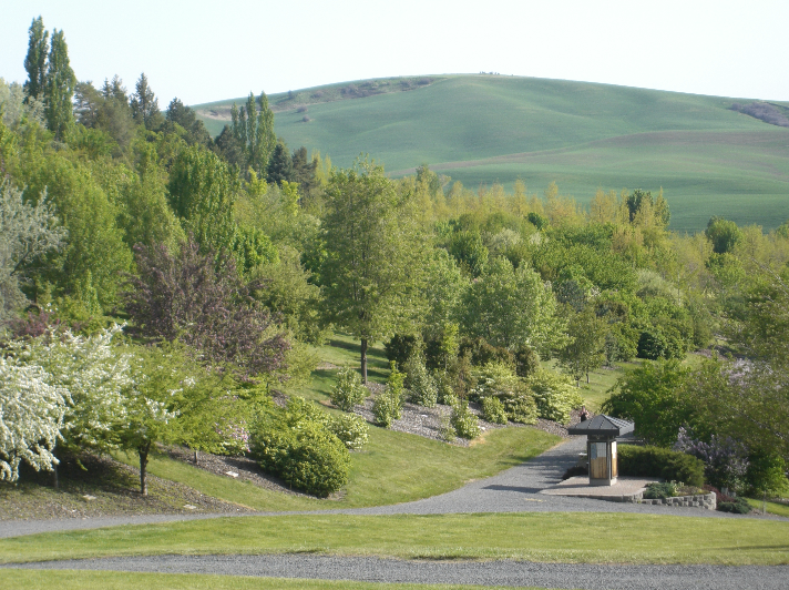 Moscow Idaho University of Idaho Arboretum - North entrance Photographer: Robbie Giles 2007-05-15 Robbie Giles 01:42, 16 May 2007 (UTC) Category:University of Idaho